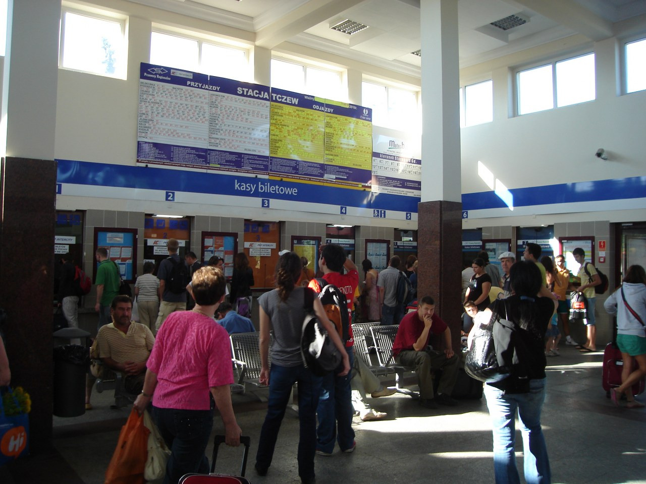 Tczew railway station.